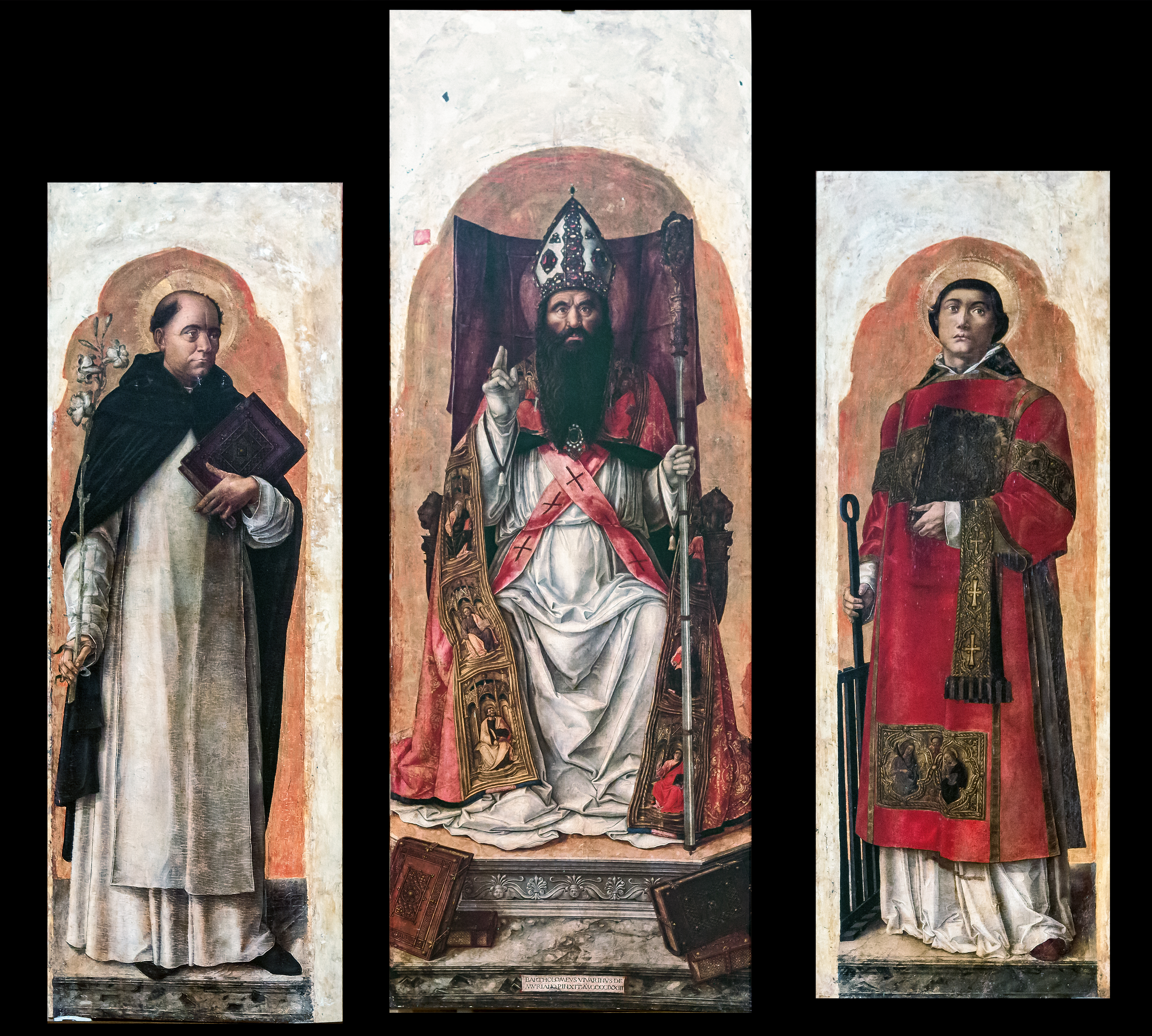 Santi Giovanni e Paolo, Venice. Triptych of St. Zanipolo: Sts Dominic, Augustin, and Lawrence by Bartolomeo Vivarini. First work made at the oil painting on wood panel in Venice - 1473.